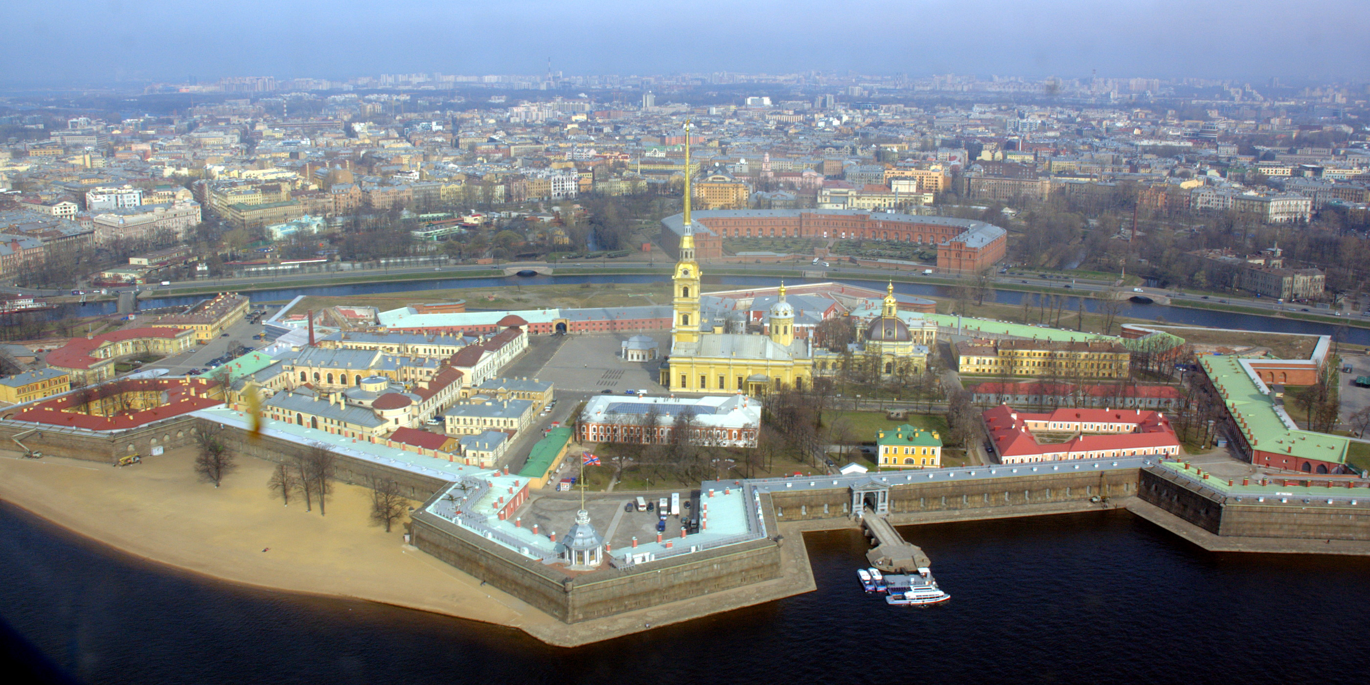 Peter and Paul Fortress